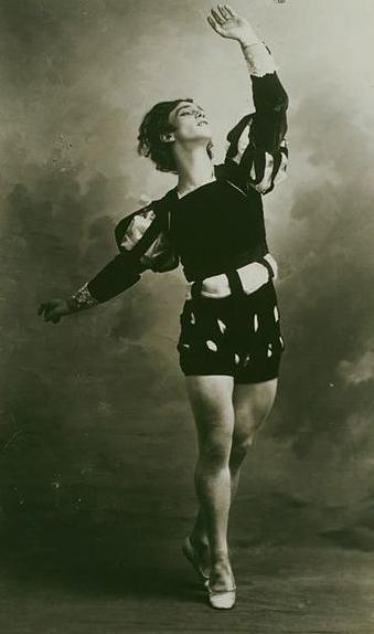 Photo of Nijinsky as Albrecht Paris 1911